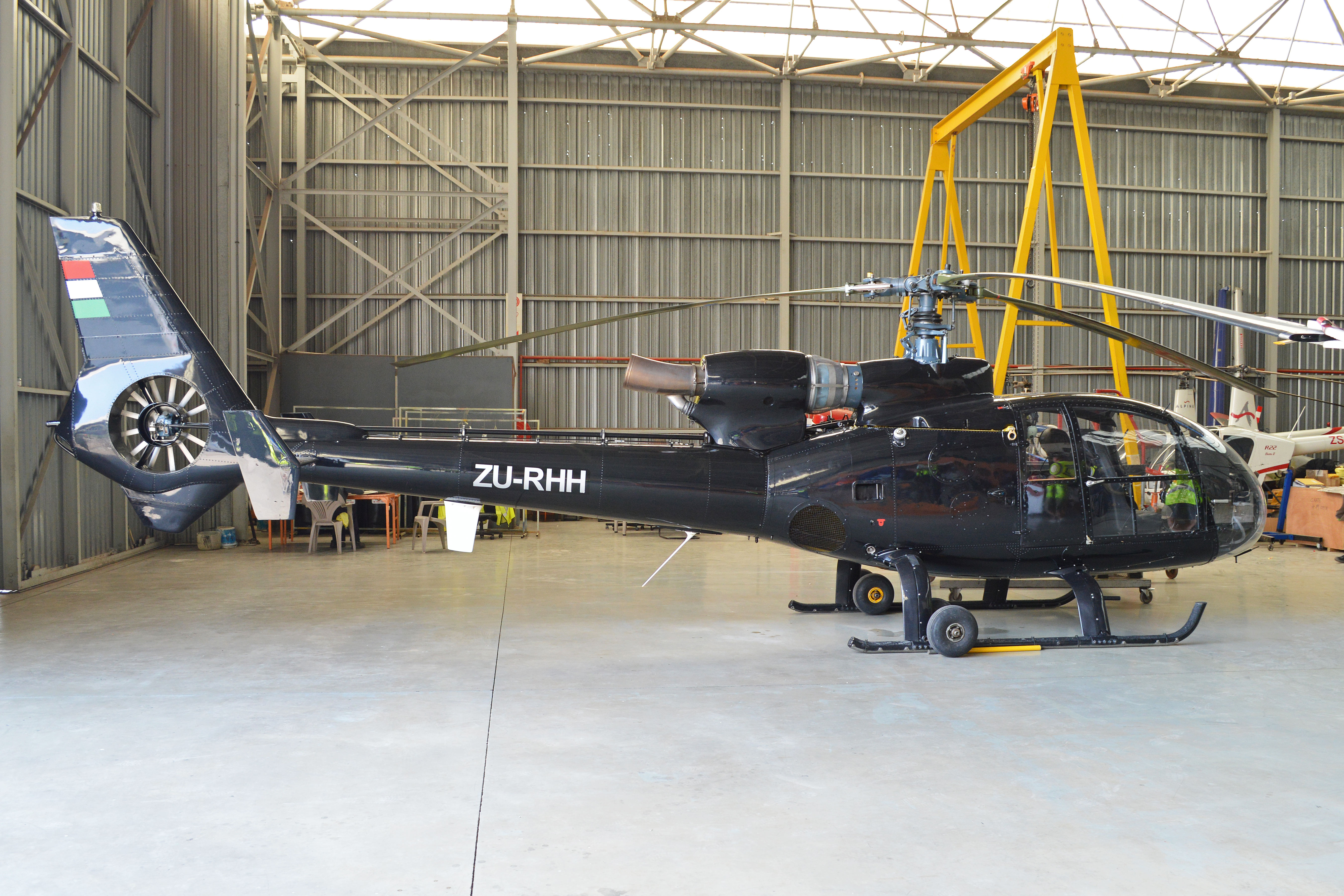 Built in 1979 for the Syrian Army as '1332'. Joined the Israeli Defence Force in 1982 as '904' and later '4X-BHH'. Sold to the civil market, she initially became 'HA-LFG' before settling in South Africa in late 2011. c/n 1737. Seen hangared at Grand Central Airport, Gauteng, South Africa.